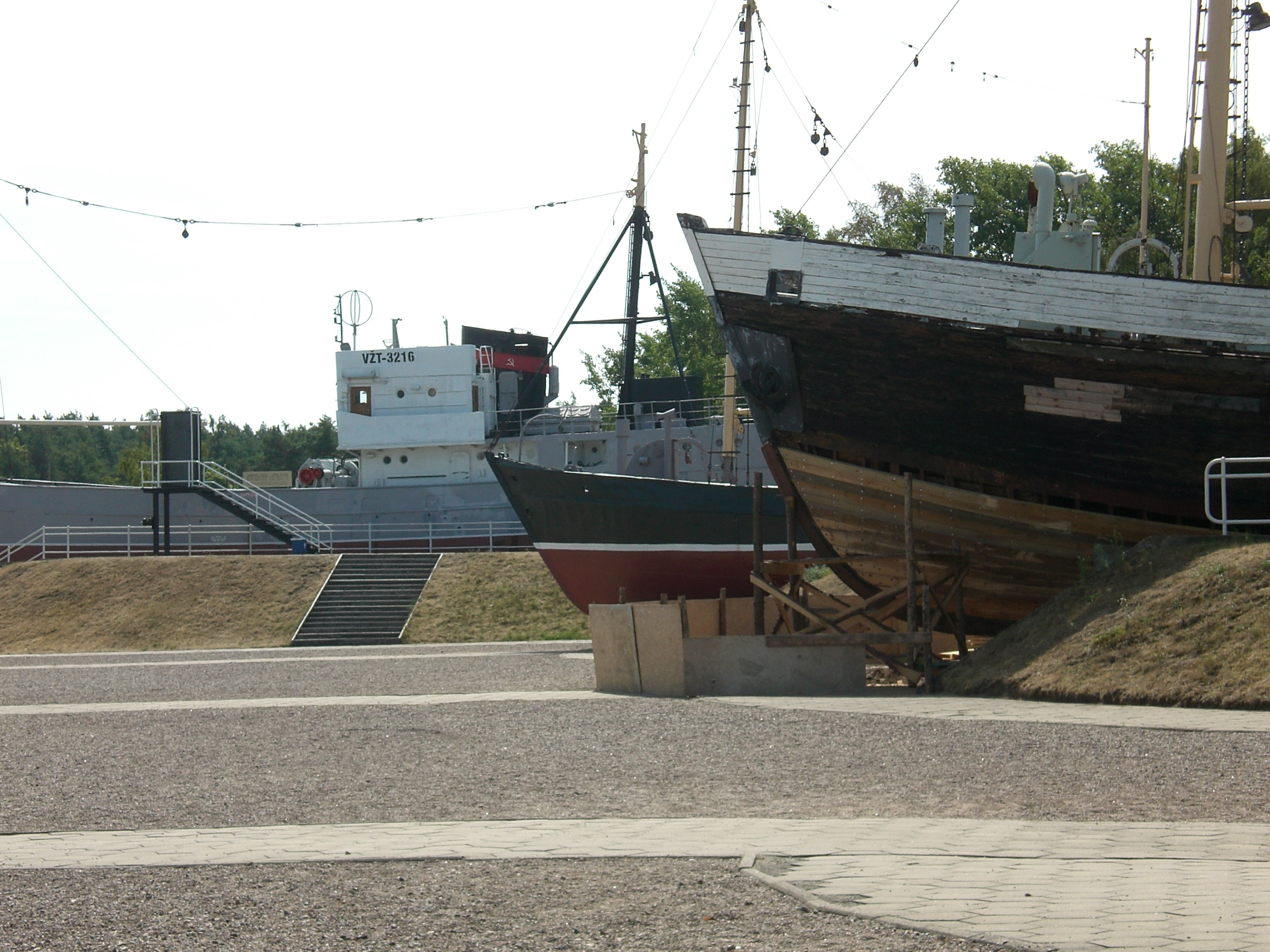 Three historical ships in the National Sea Museum of Lithuania in Klaipėda-Kopgalis, Lithuania